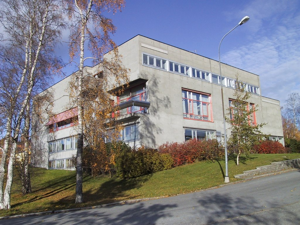 Courthouse in Örnsköldsvik, Sweden.